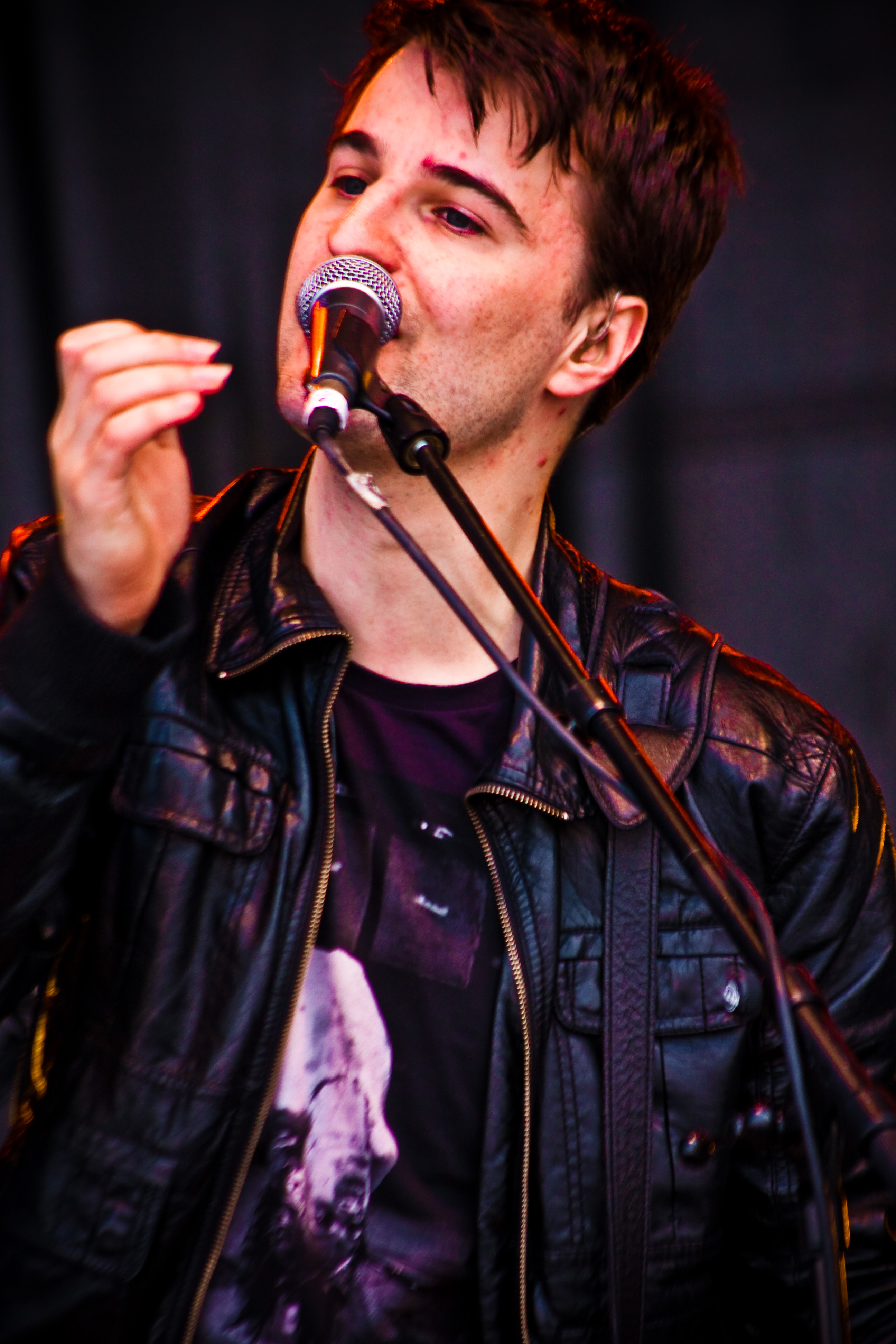 Jim Moray playing at the St George's Day celebration at Trafalgar Square. [Proof of concept: edited using Lightroom 2 on a 10" netbook, uploaded on location.]